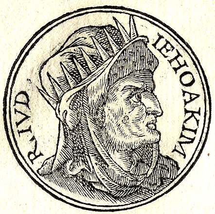 Jehoiakim-Eliakim was king of Judah. He was the second son of king Josiah by Zebidah the daughter of Pedaiah of Rumah. His birth name was Eliakim.